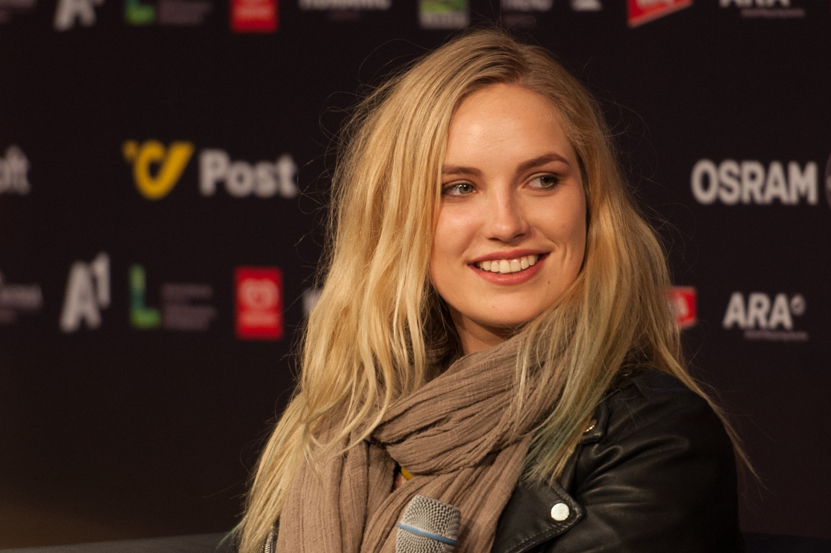 Eurovision Song Contest Vienna 2015: Molly Sterling